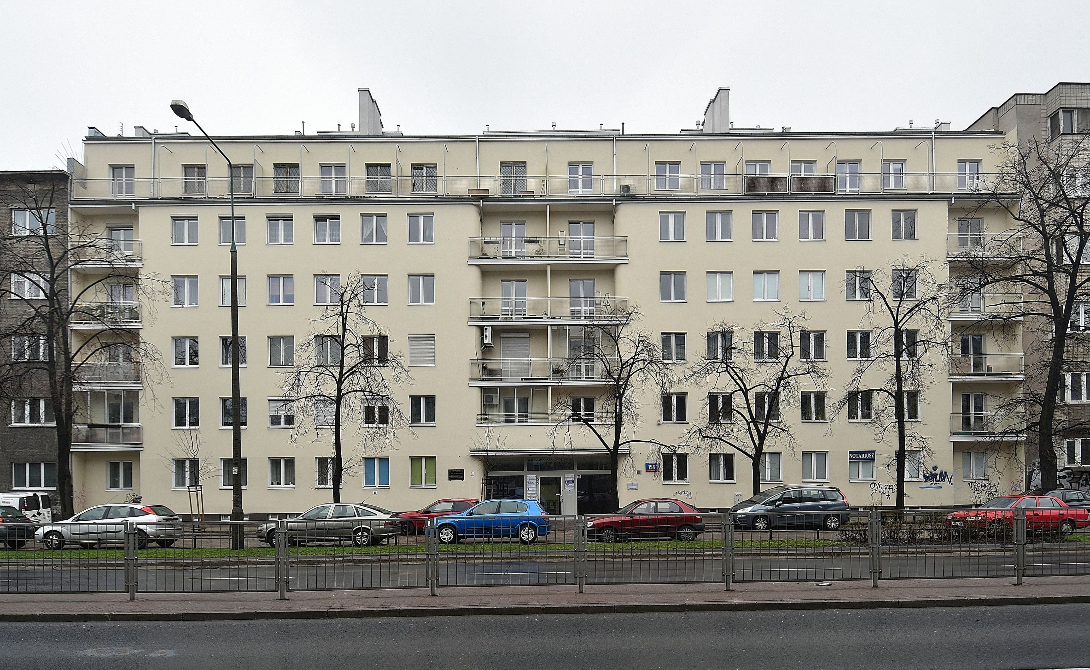 Tenement house at 159 Niepodległości Avenue in Warsaw